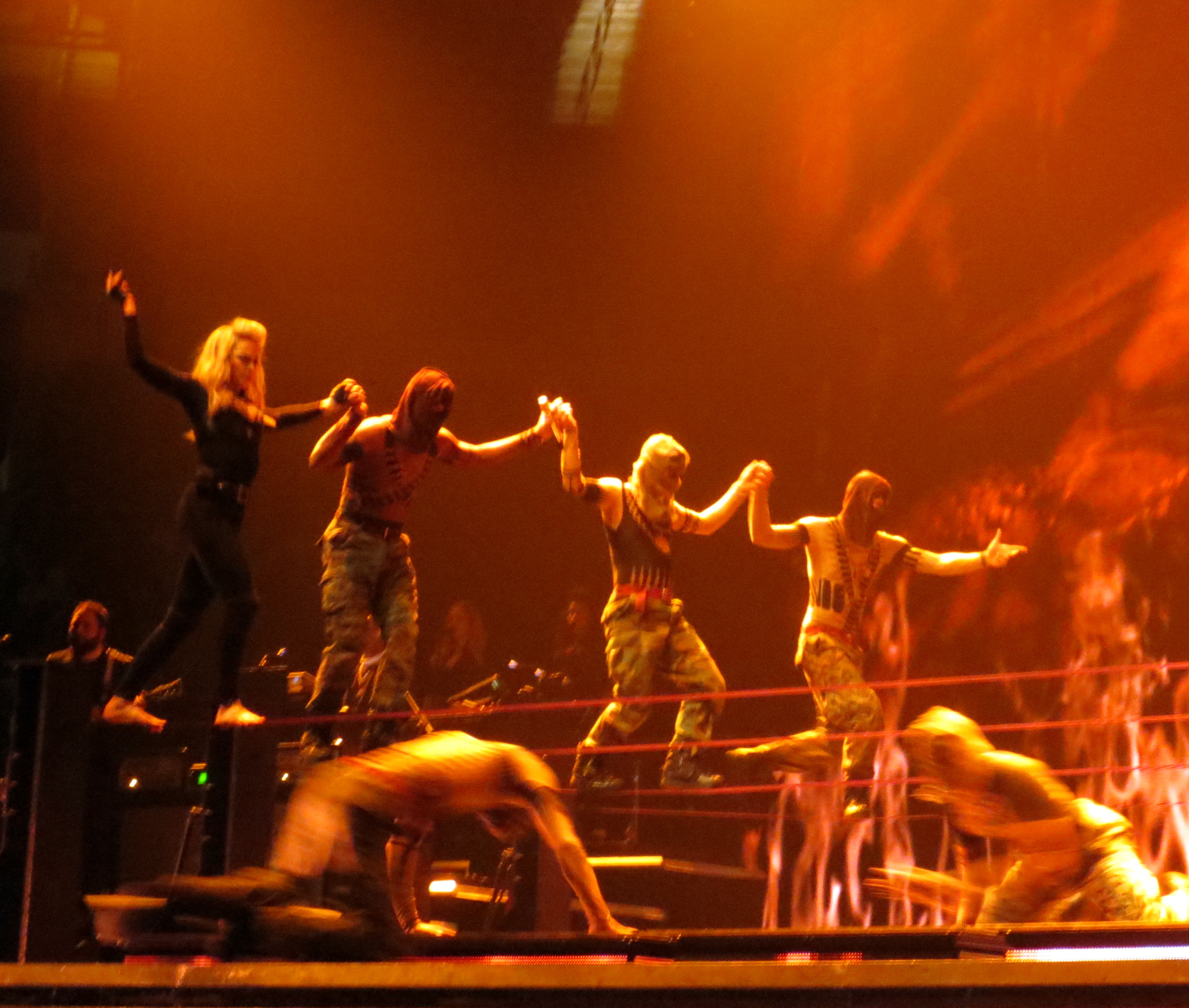 2012 10-25 MDNA Madonna Houston (113)